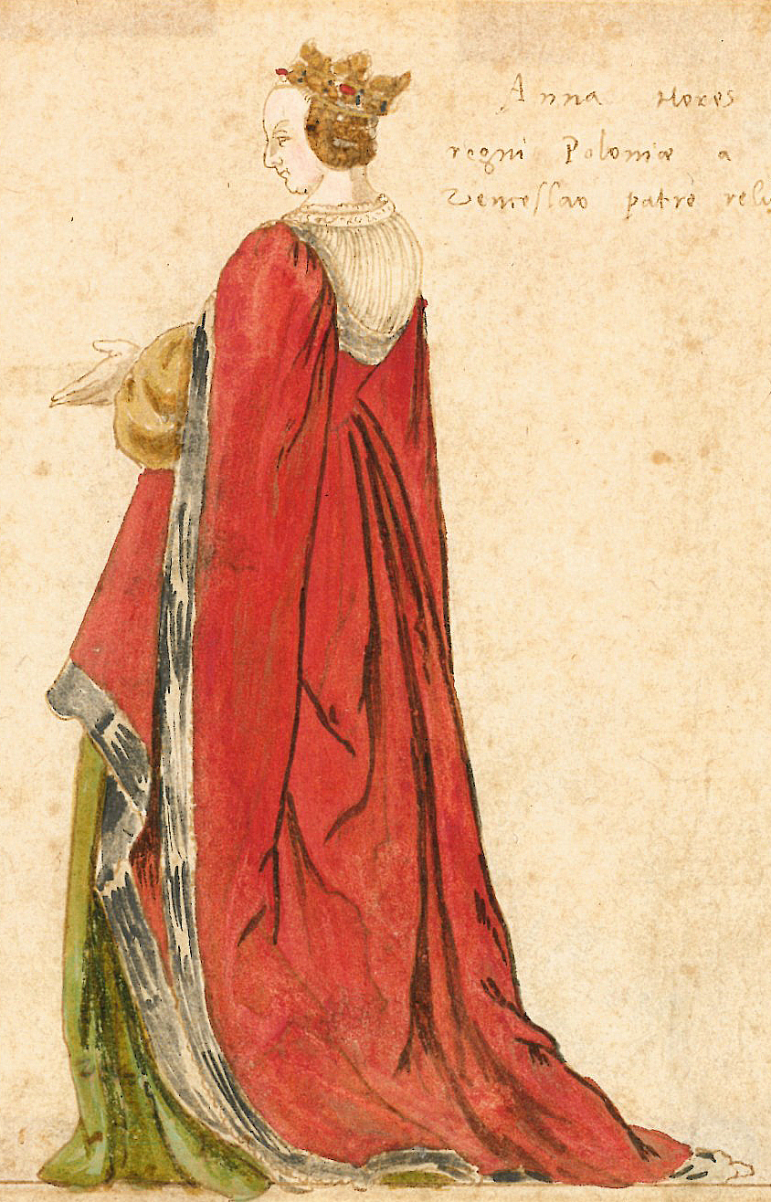 Lithuanian_Grand_Duchess_Anna dating back to 16th century.